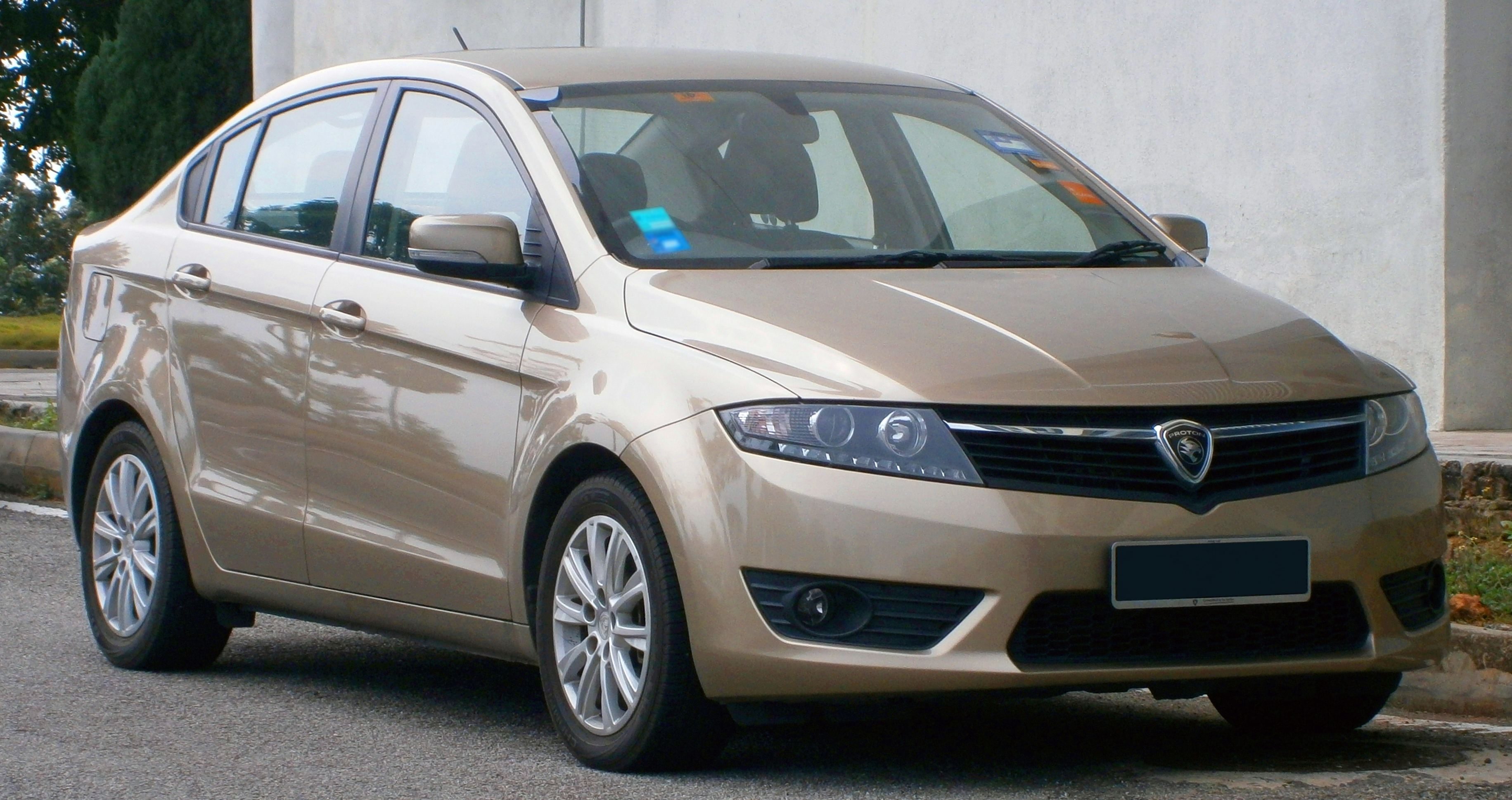 2013 Proton Prevé Executive in Cyberjaya, Malaysia. Colour : Elegant Brown Designed & Assembled in Malaysia